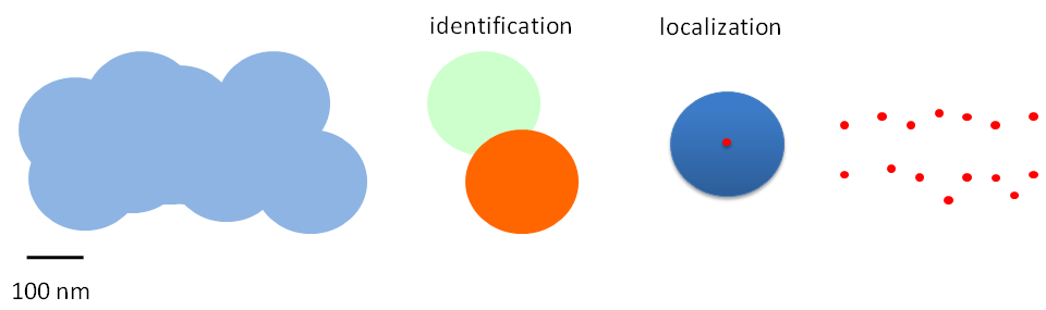 Conceptual diagram of identification and localization of overlapping point emitters